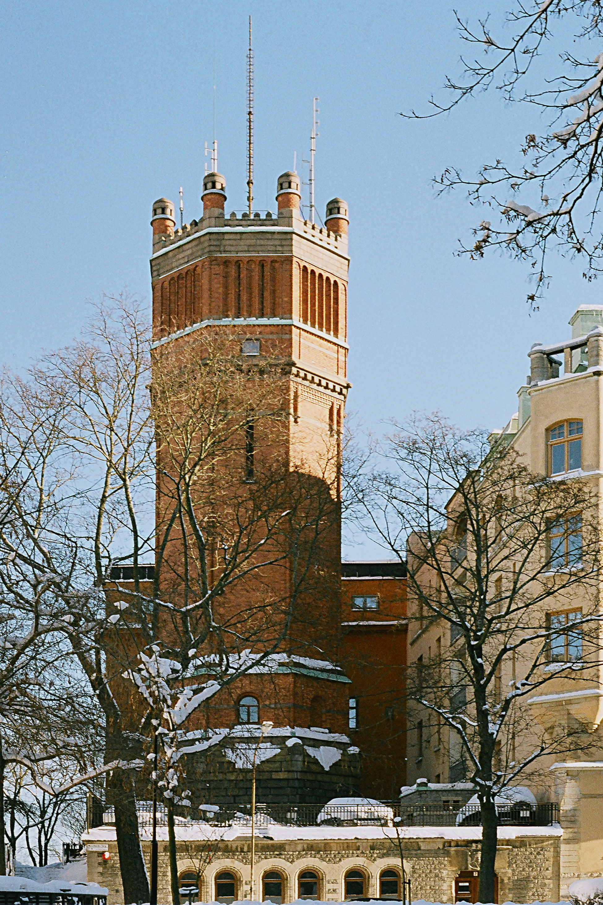 Mosebacke vattentorn, januari 2011.